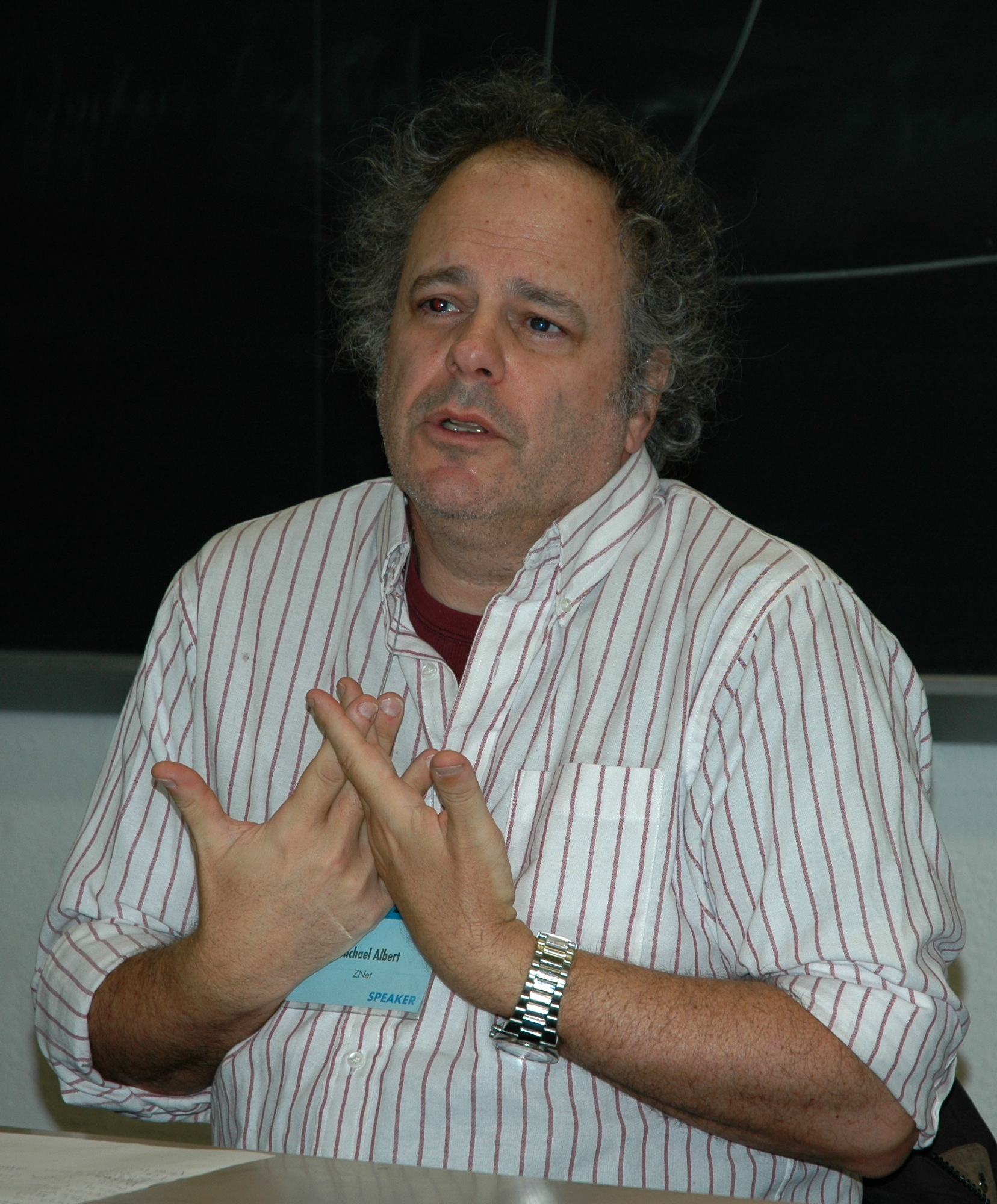 Publisher and author Michael Albert speaking at New York's annual Left Forum, 2007.